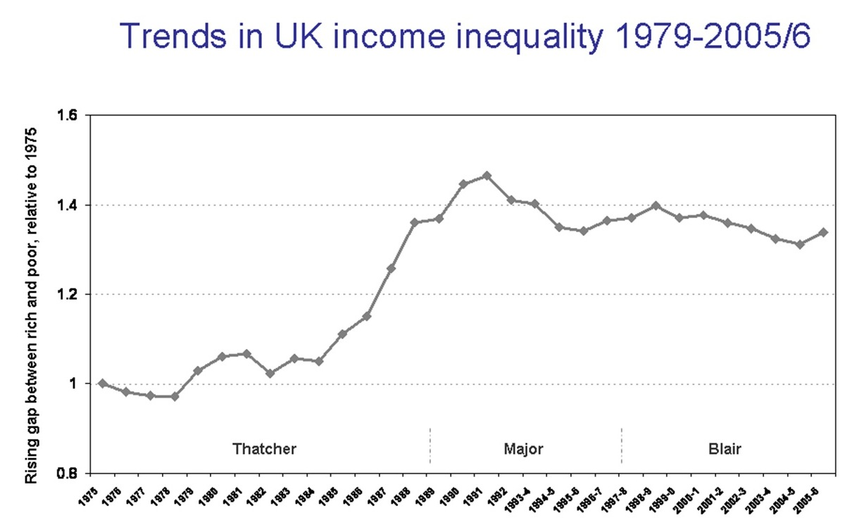 The Spirit Level: Why More Equal Societies Almost Always Do Better.